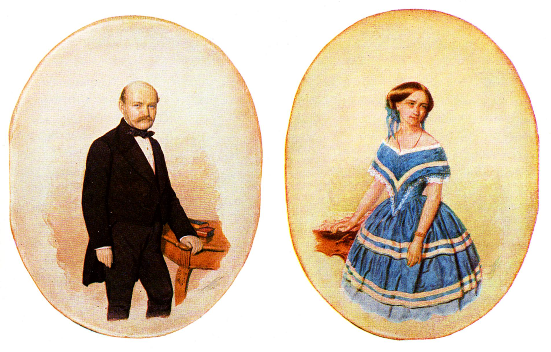 The reputable painter Ágost Canzi (1808-1866) portraited Semmelweis together with his wife Mária Weidenhoffer the year they wed (1857).